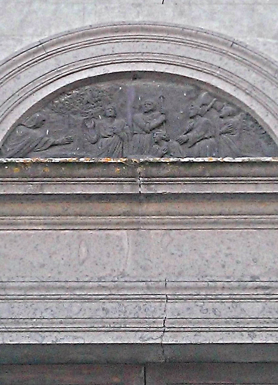 Martirio SS Fidenzio e Terenzio Bassano in Teverina bassorilievo facciata chiesa immacolata concezione